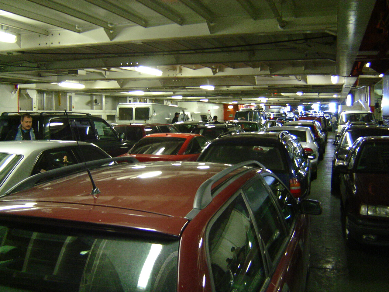 Pokład samochodowy na promie MF Wawel; Car board on ferry MF Wawel Typ: Passenger ship IMO Number: 7814462 MMSI Number: 311852000 Callsign: C6TY9 Length: 164 m Beam: 28 m